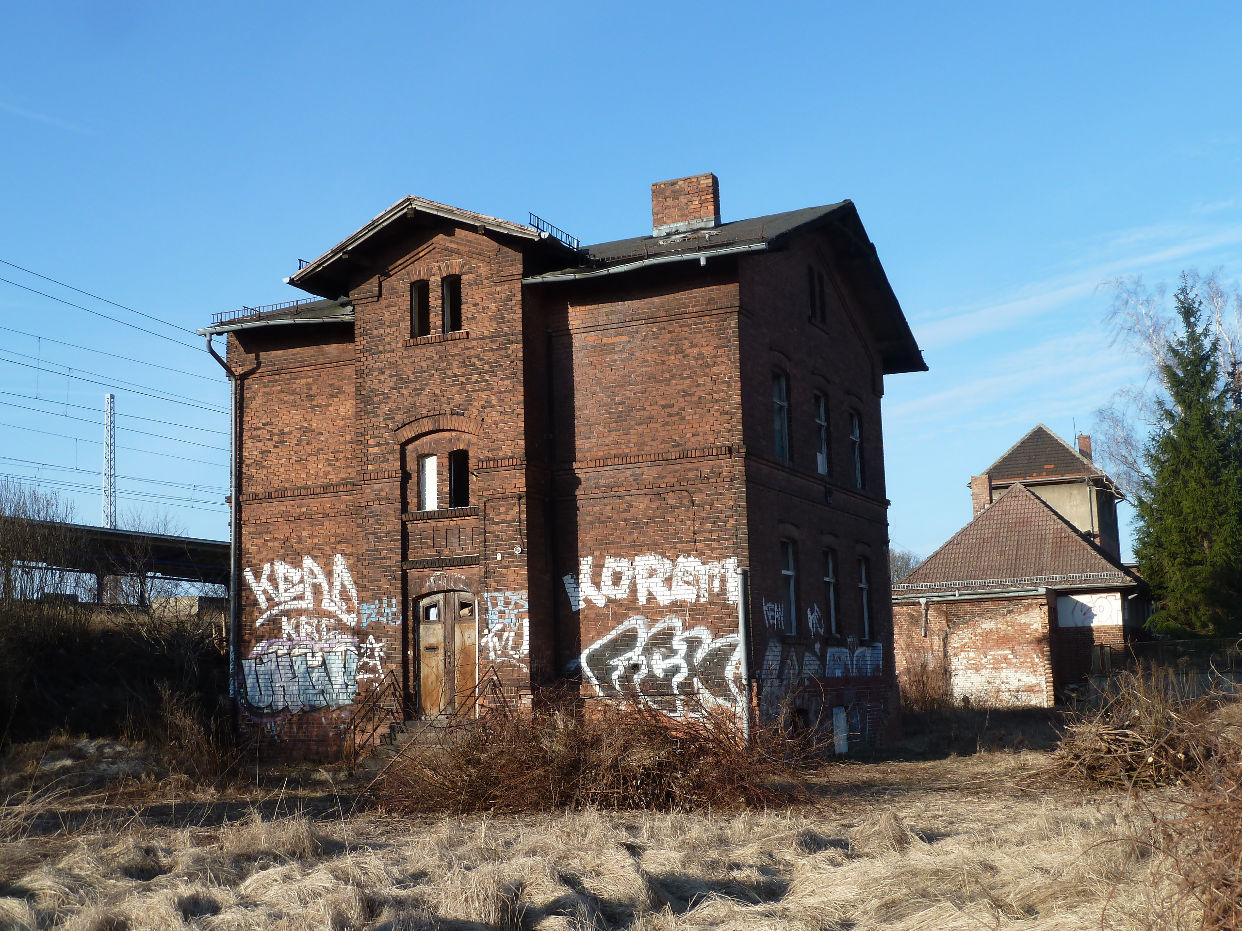 Berlin-Blankenburg railway station, former gate keeper's house